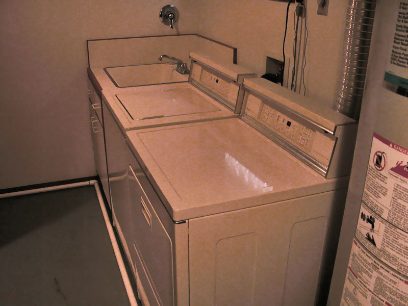 Laundry Room in the Student Residence Office in the City University of Hong Kong